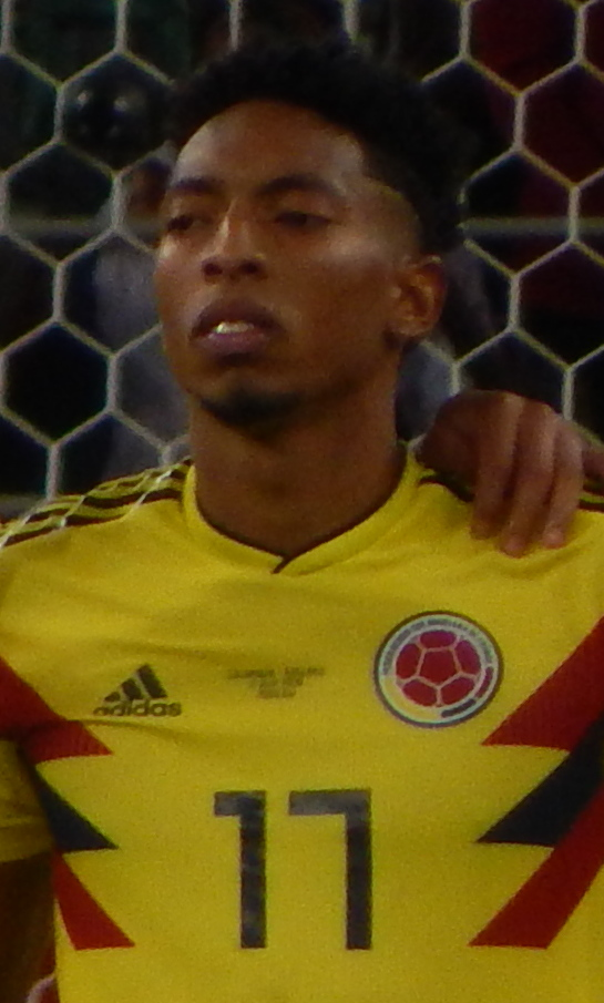 FIFA World Cup 2018, Round of 16, Colombia vs. England